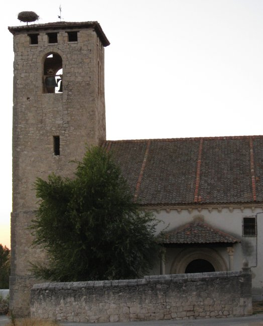 church main view